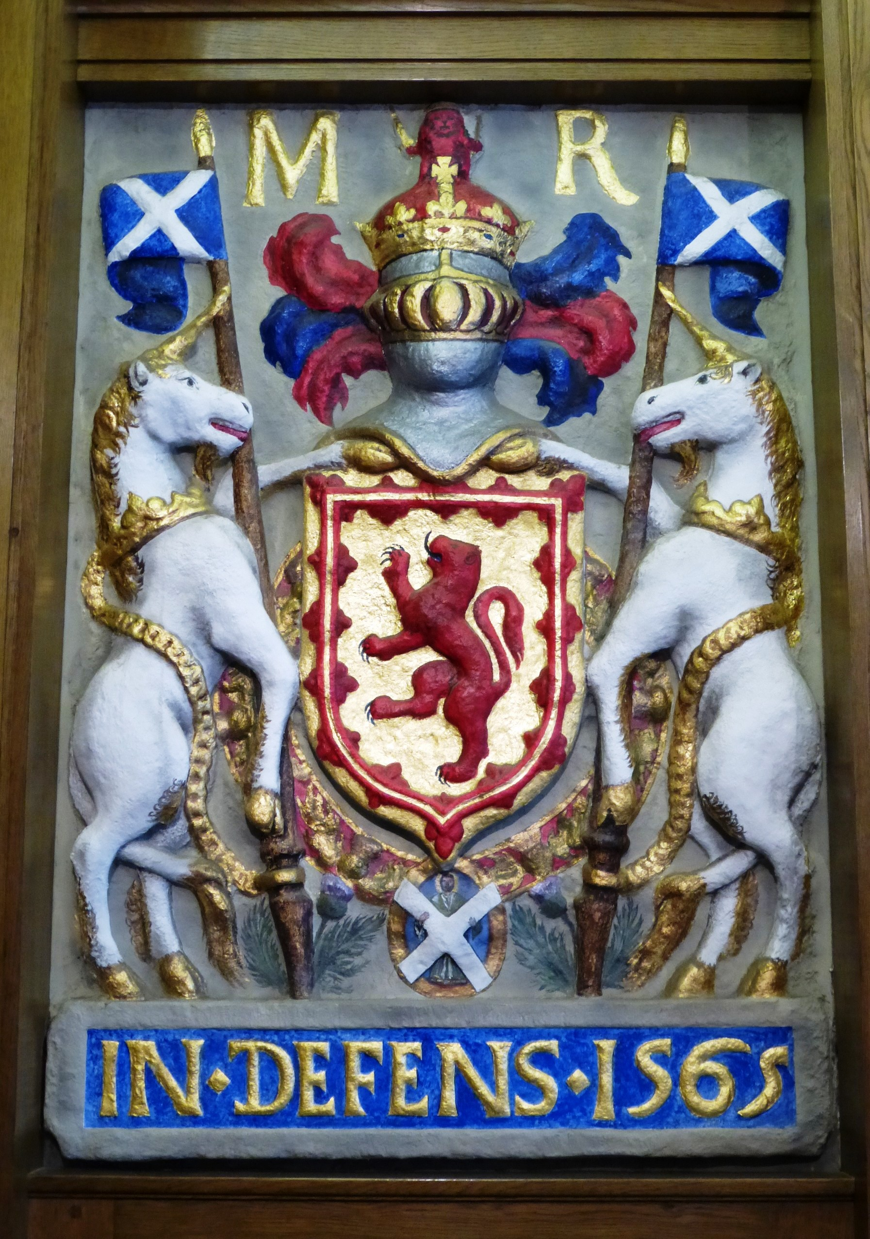 The heraldic arms of Mary Stuart, formerly incorporated into Leith tolbooth (1565), and now in the vestibule of South Leith Parish Church